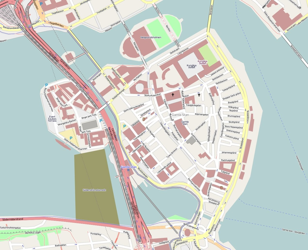 Gamla stan, Stockholm, Sweden This map may be incomplete, and may contain errors. Don't rely solely on it for navigation.